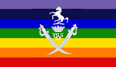 Flag of Morvi State. A rectangular flag of seven equal stripes, violet, indigo, blue, green, yellow, saffron and red (top to bottom) with crossed swords "MS" between the hilts and the crest, a white horse with a wreath over the top. Royal House of Morvi